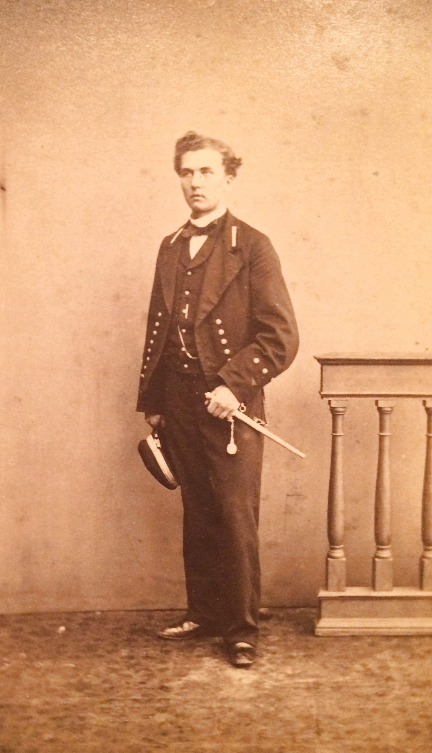 The later Konteradmiral of the Imperial German Navy, Franz Strauch as Officer Cadett, photographed around 1865 in Greifenhagen (today Gryfino). Strauch later was commander of S.M.S. Leipzig, the flagship of East Asia squadron. Strauch also was Vicepresident of the German Colonial Society. Some parts of his collection are today part of the Humbold-Forum and the Münzkabinett on the Berlin Museum Island.